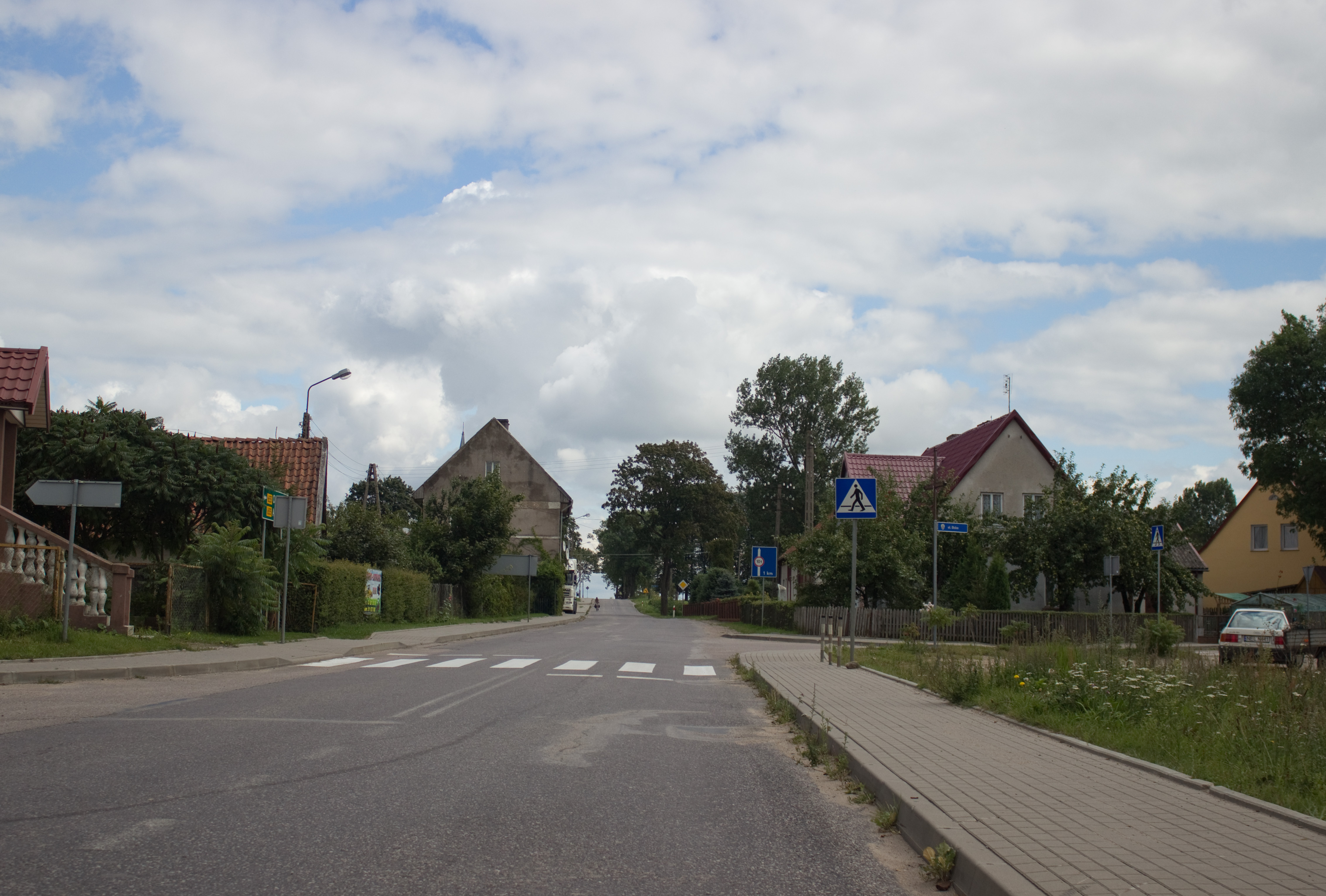 Cimochy, gmina Wieliczki, powiat olecki, Warmian-Masurian Voivodeship